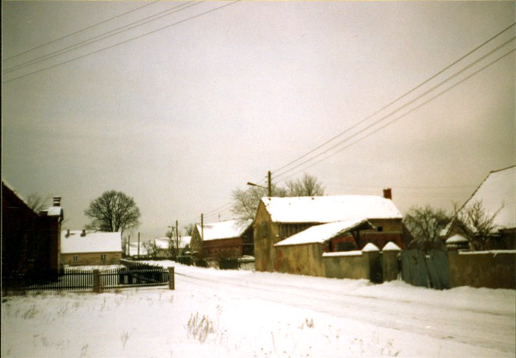 Fragment Nowego Strącza (A part of Nowe Stracze, Poland), 1999. Jestem autorem (I'm the author)